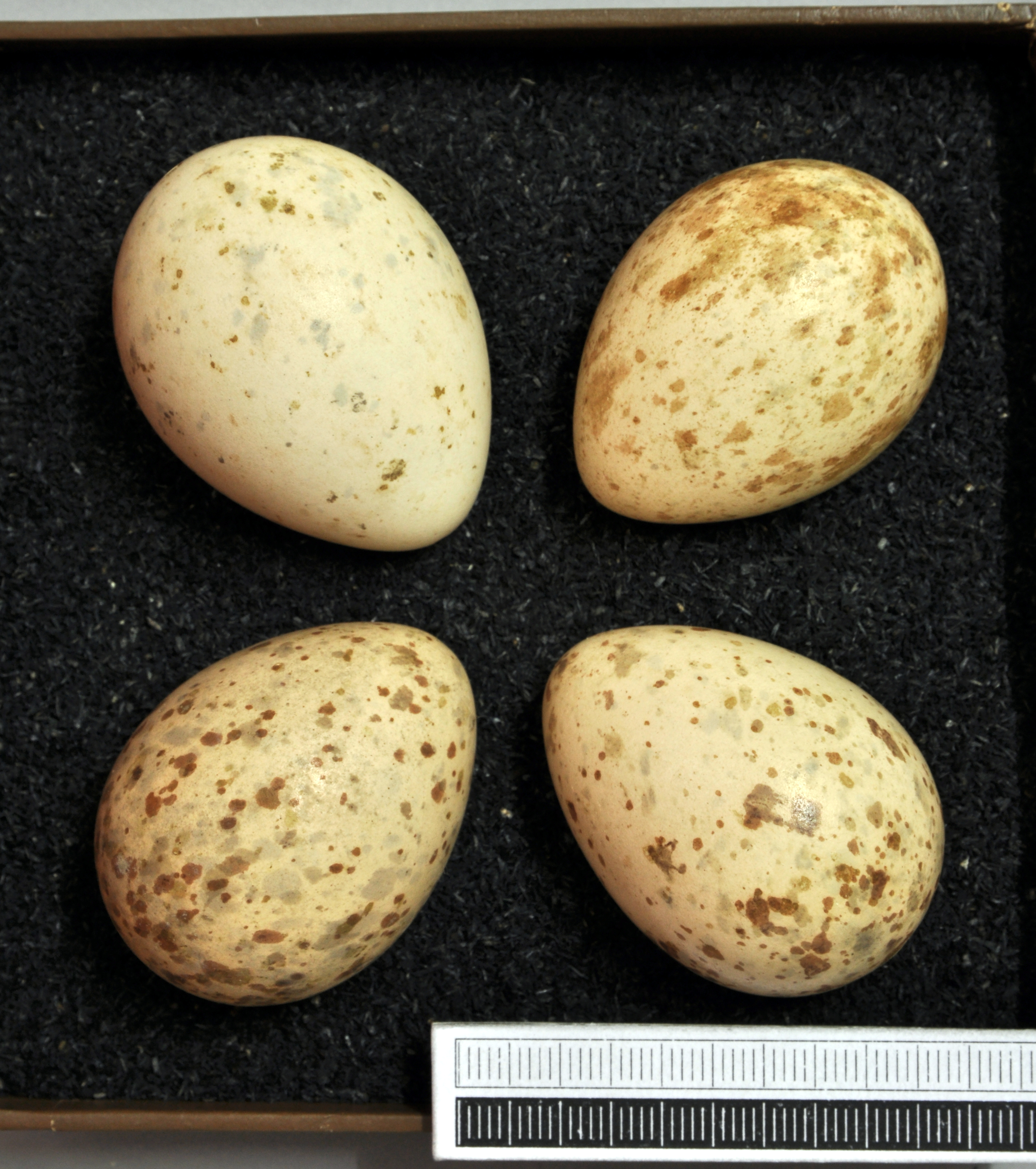 Eurasian woodcock Scolopax rusticola , egg, Coll. Museum Wiesbaden